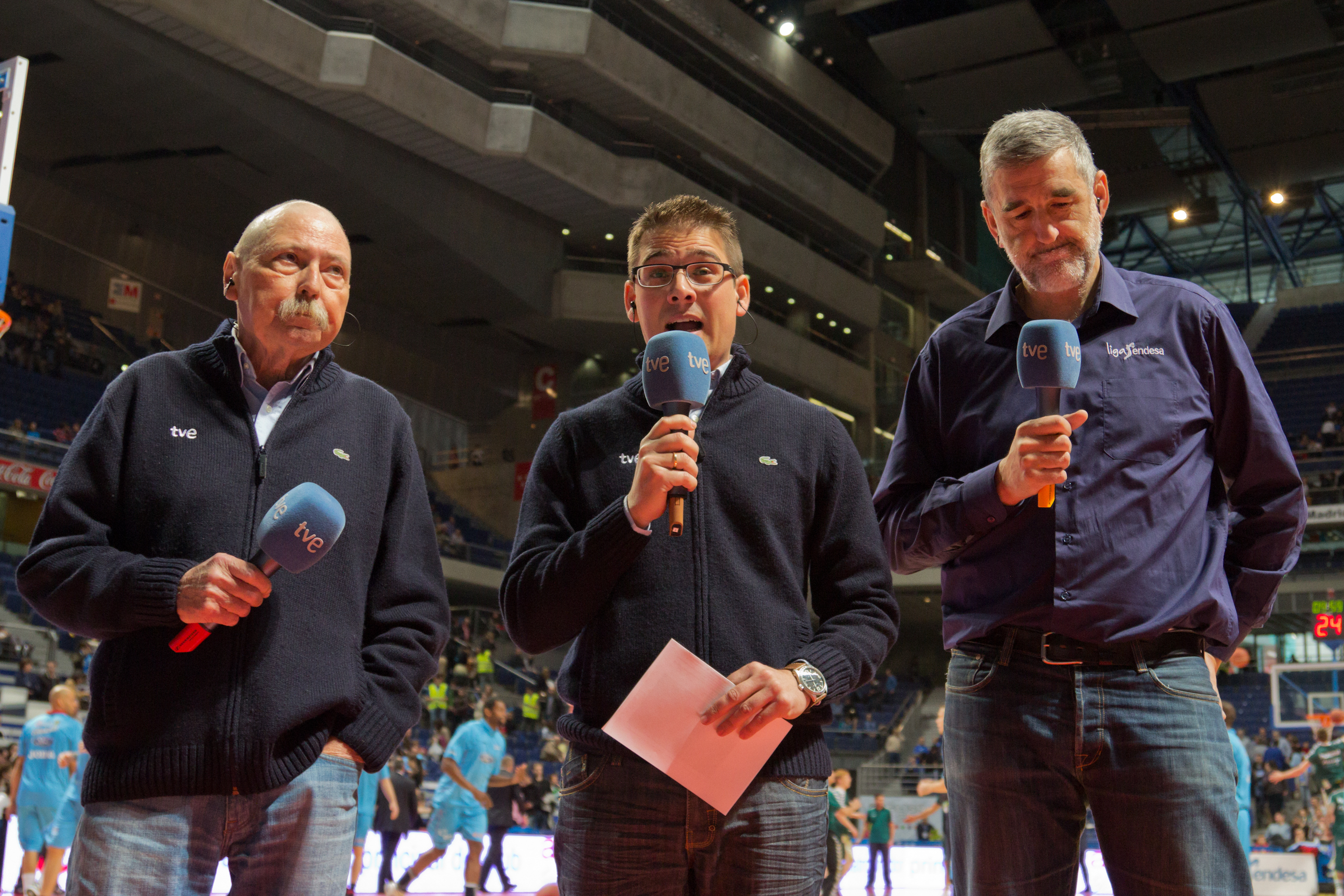 Manel Comas, Arsenio Cañada and Juanma Iturriaga during the live broadcasting of the basketball game of the Liga ACB between Estudiantes and Unicaja de Málaga.